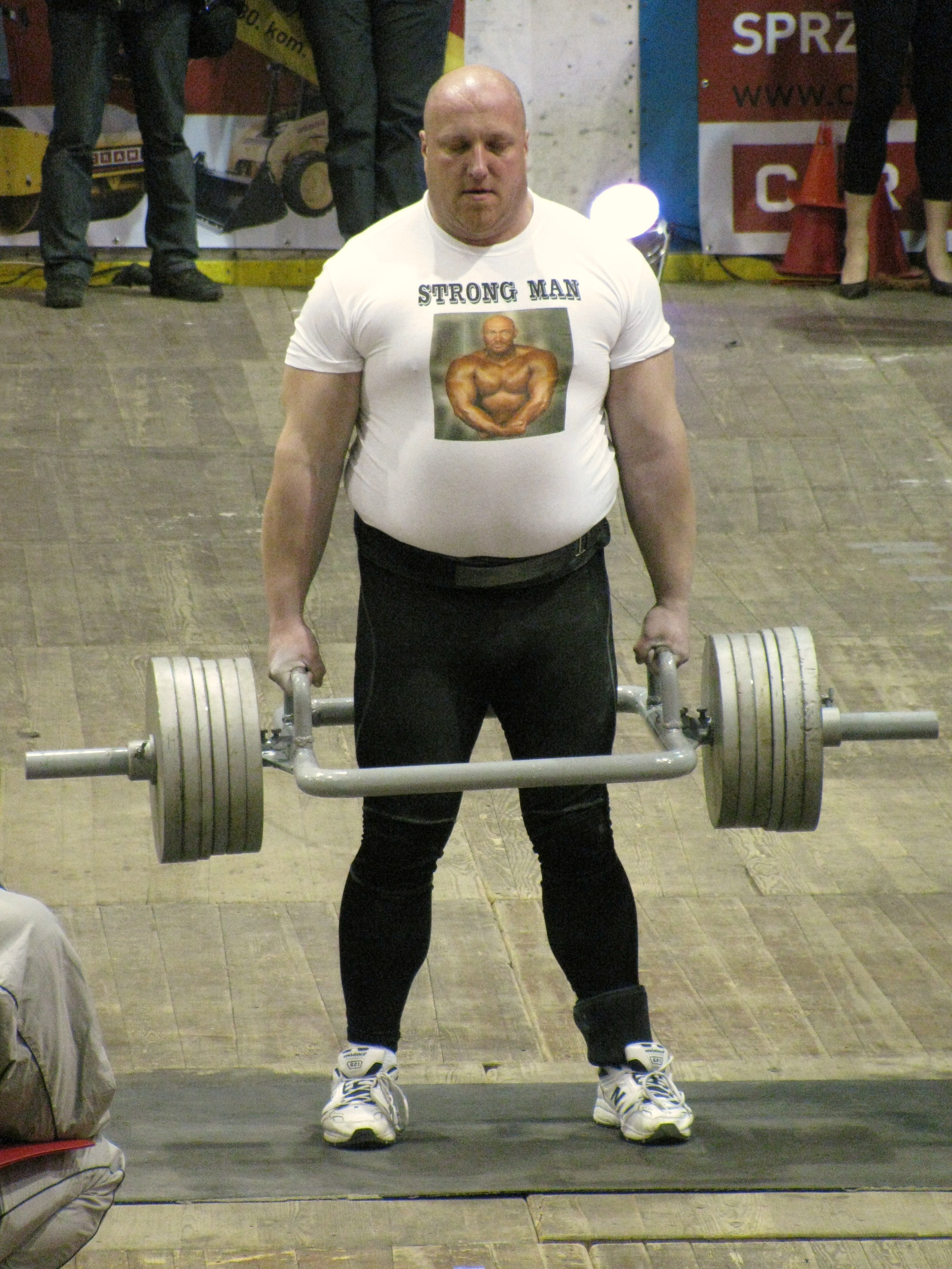 Robert Kalinowski - a strength athlete from Poland at Weight Hold (for time).